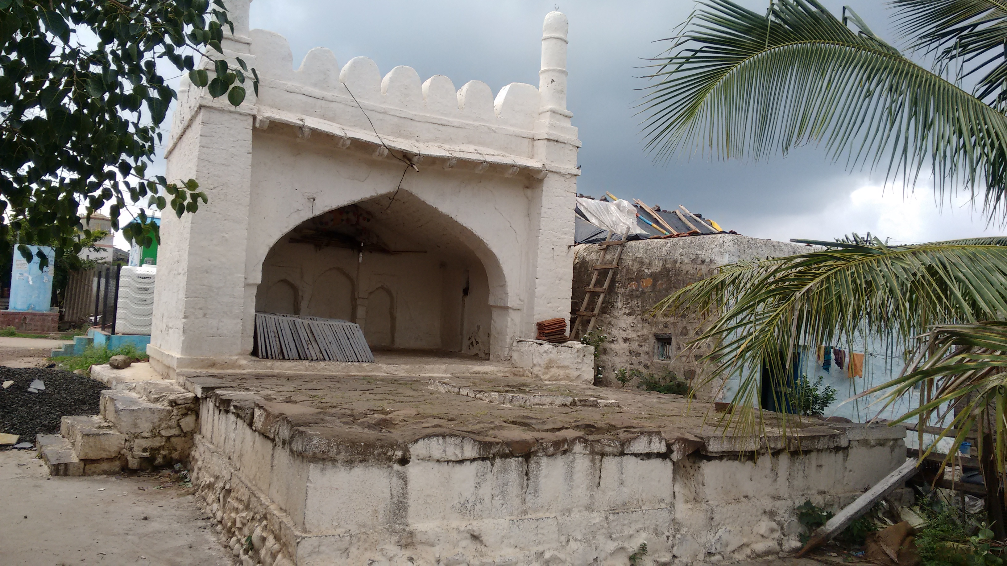 A old mosque belonging Adil Shahi dynasty at the center of the village, BADACHI, athani belgaum